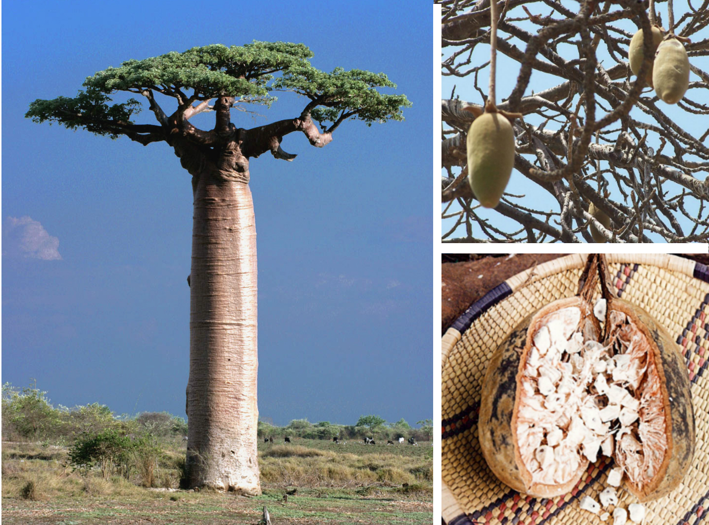 Adansonia (Baobab) tree and fruits.